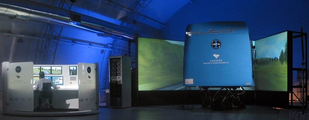 TUTOR, combined bus and truck simulator, installed in INTA, Spain.